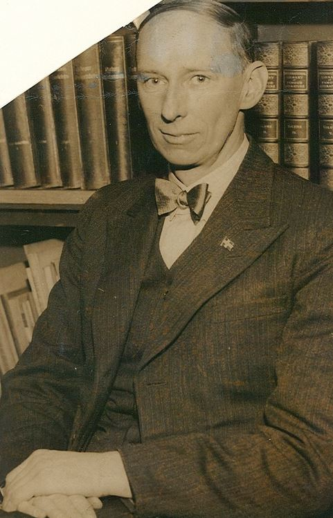 Norwegian engineer and promotor/writer of hiking and outdoor life, Gunnar Raabe (1896–1969), pictured around 1955.